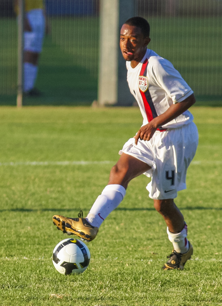 Nicholas MILLINGTON playing for the United States U20 football team in Sydney, Australia.